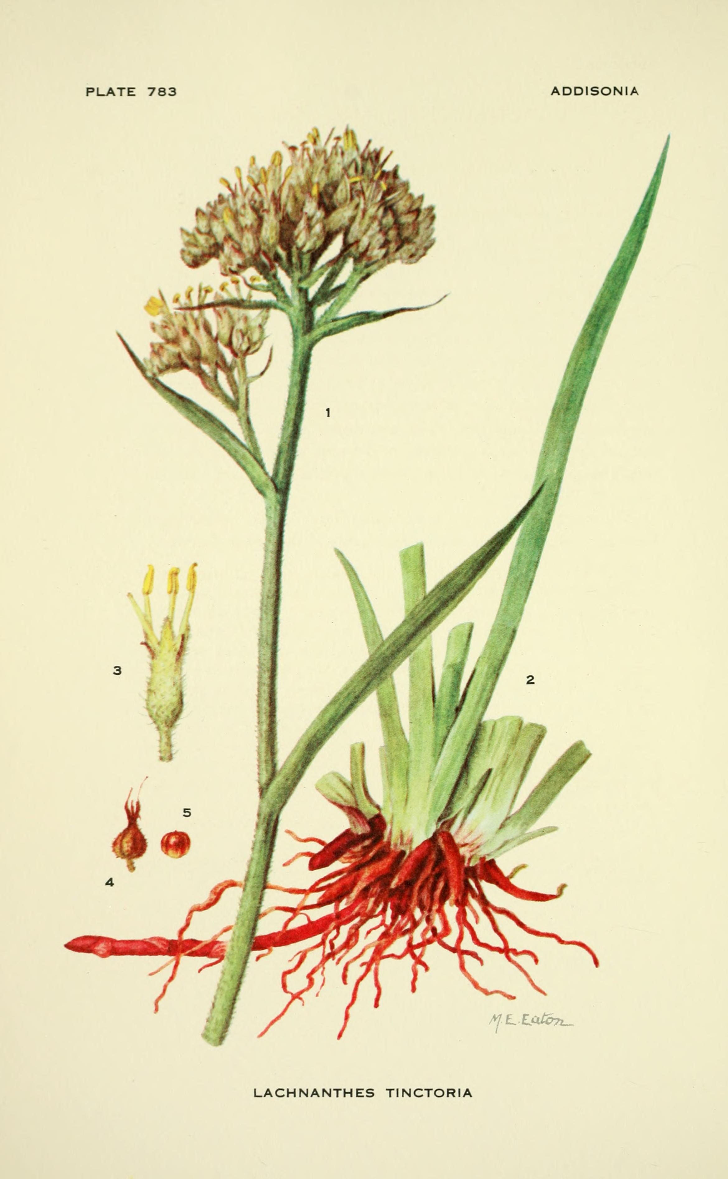 Title: Addisonia : colored illustrations and popular descriptions of plants Year: 1916-(1964) (1910s) Authors: New York Botanical Garden Subjects: Plants; Plants -- United States; Plants Publisher: New York : New York Botanical Garden Text Appearing Before Image: PLATE 783 ADDISONIA Text Appearing After Image: LACHNANTHES TINCTORIA